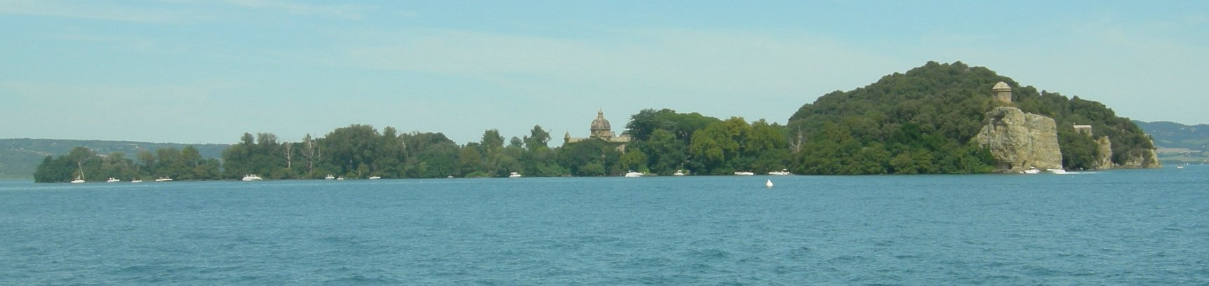 The Isola Bisentina on the Bolsena Lake, Italy